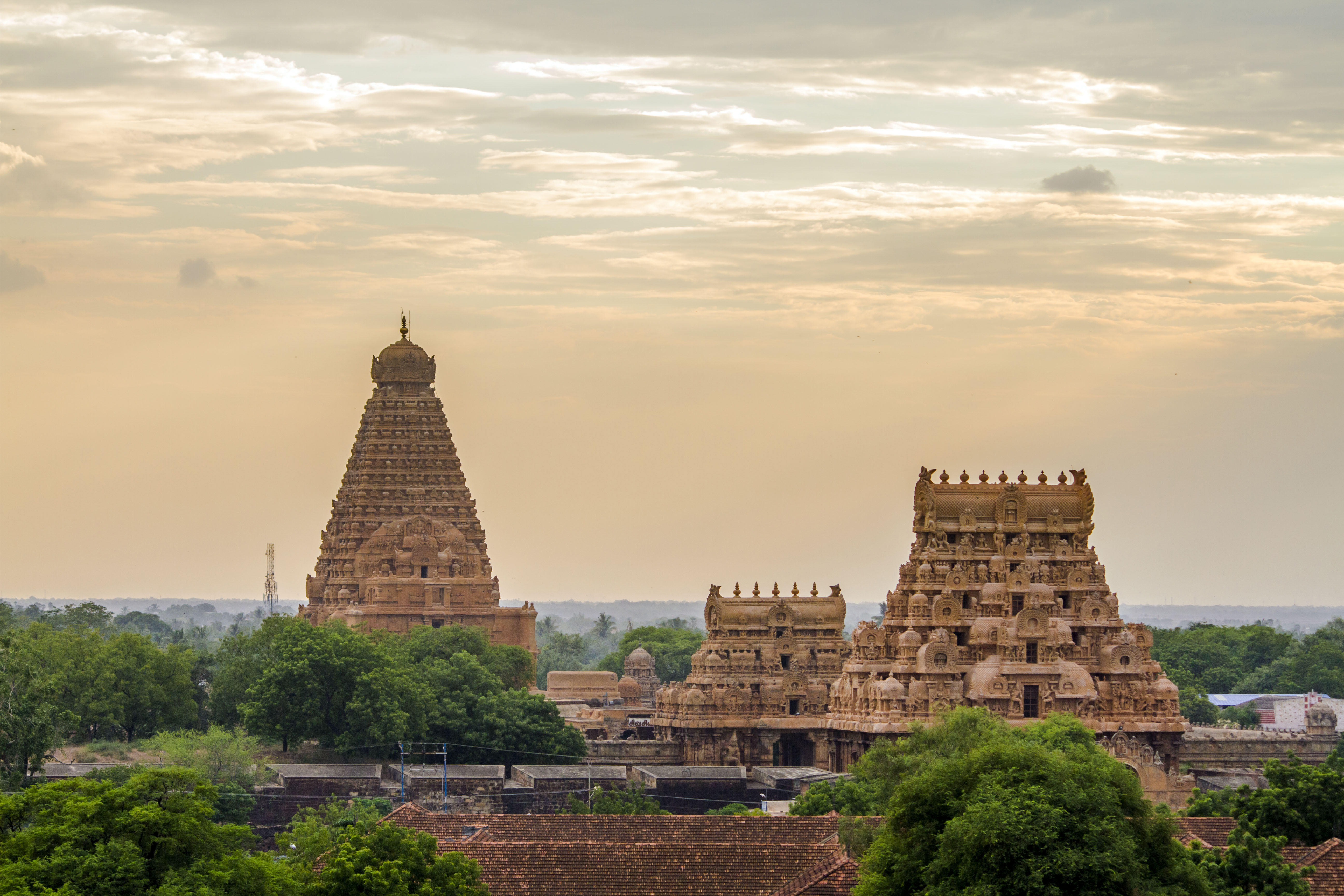 living example of Chola's architect